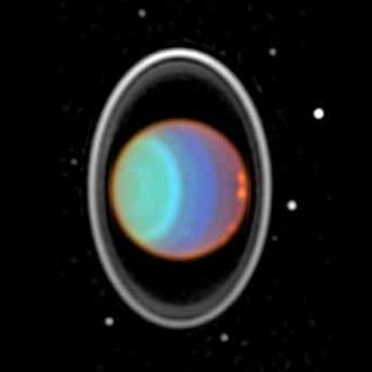 Uranus system from Hubble telescope. Tagalog: Urano sistema mula sa Hubble teleskopyo.